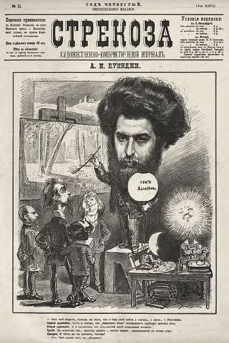 Title list of the "Strekoza" magazine (March 18, 1879) with a drawing by Alexander Lebedev